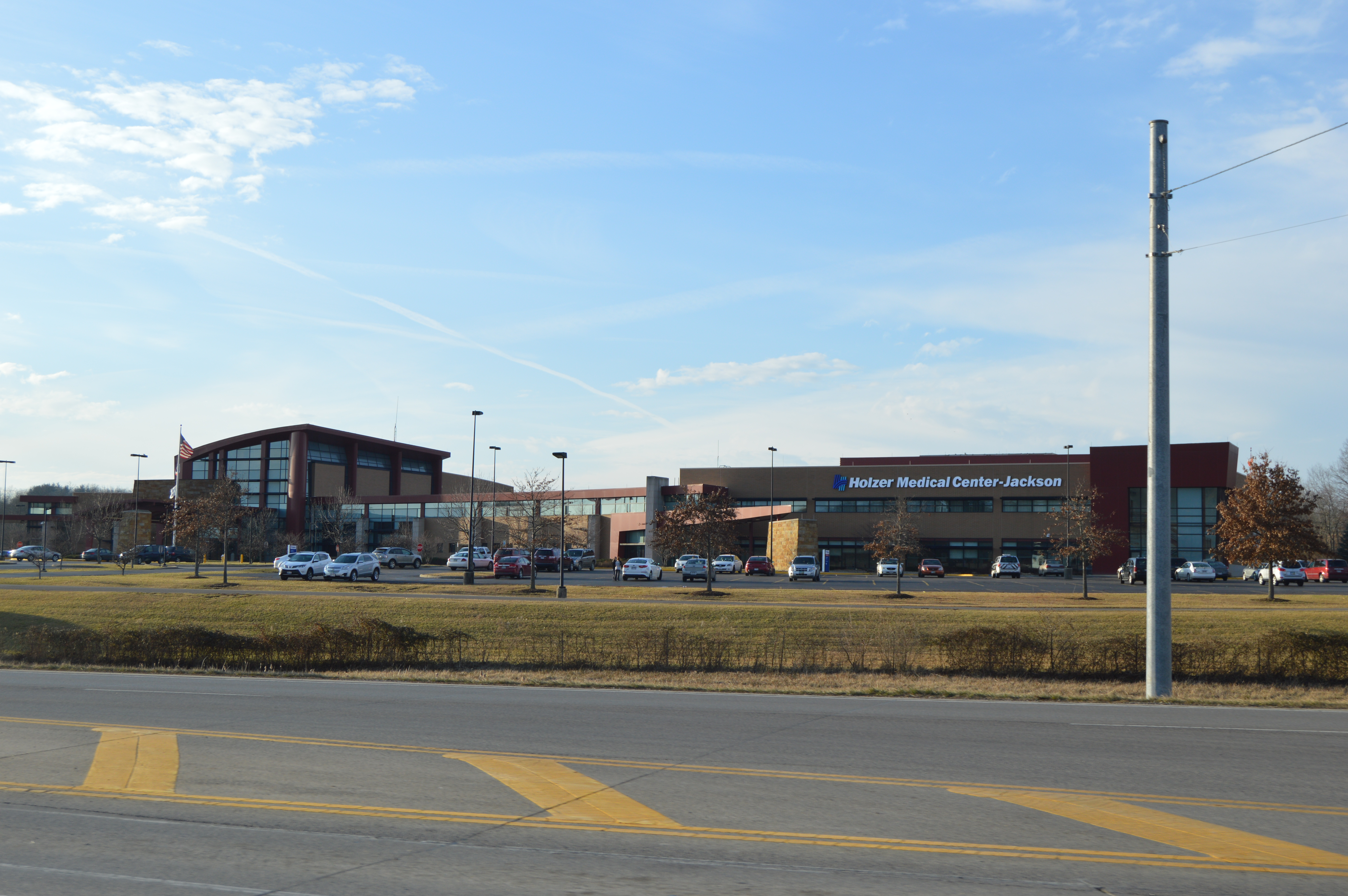 Front of the Holzer Medical Center, located on the western corner of the junction of State Routes 32/124 with Burlington Road in Jackson, Ohio, United States.